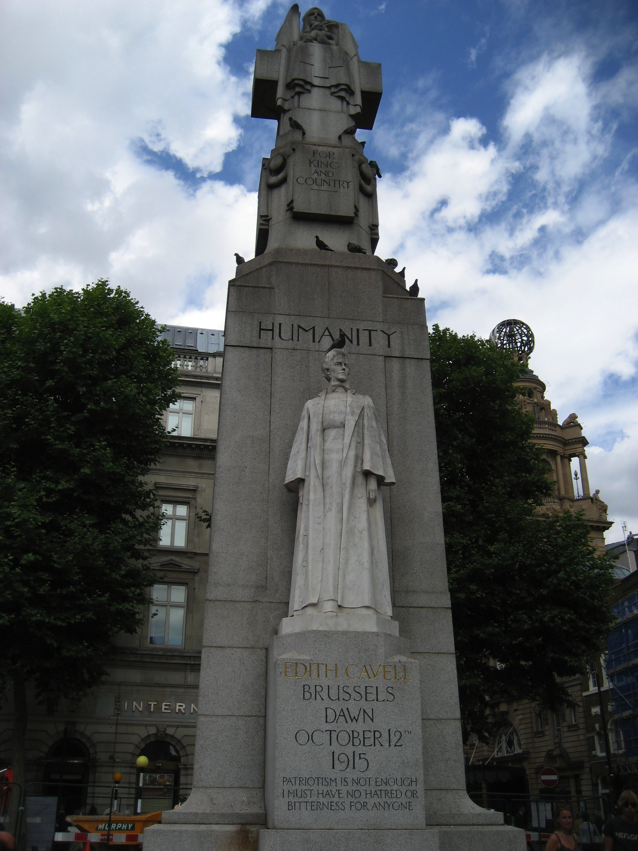 The memorial to Edith Cavell at St. Martin's Place, London UK.